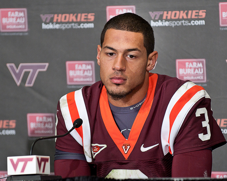 Logan Thomas of Virginia Tech following his team's loss to Clemson in October 2011.